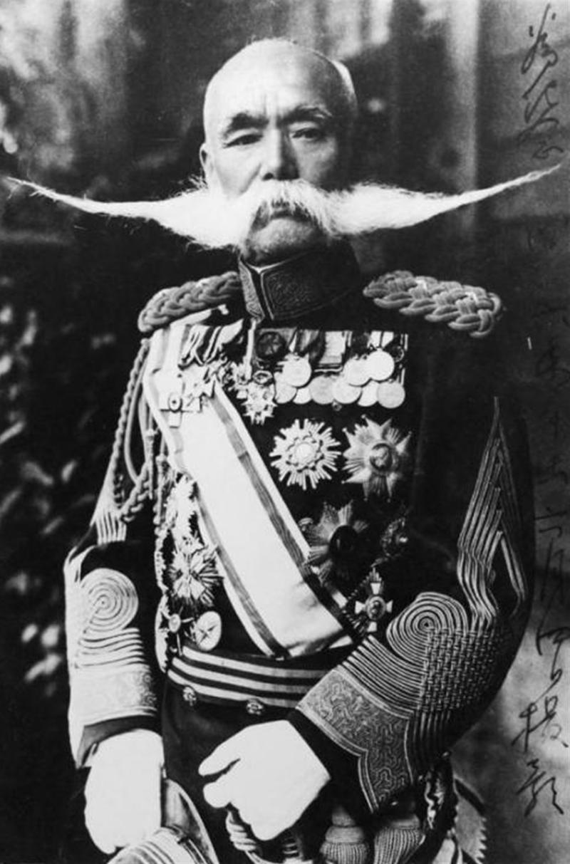 Portrait of Count Nagaoka Gaishi